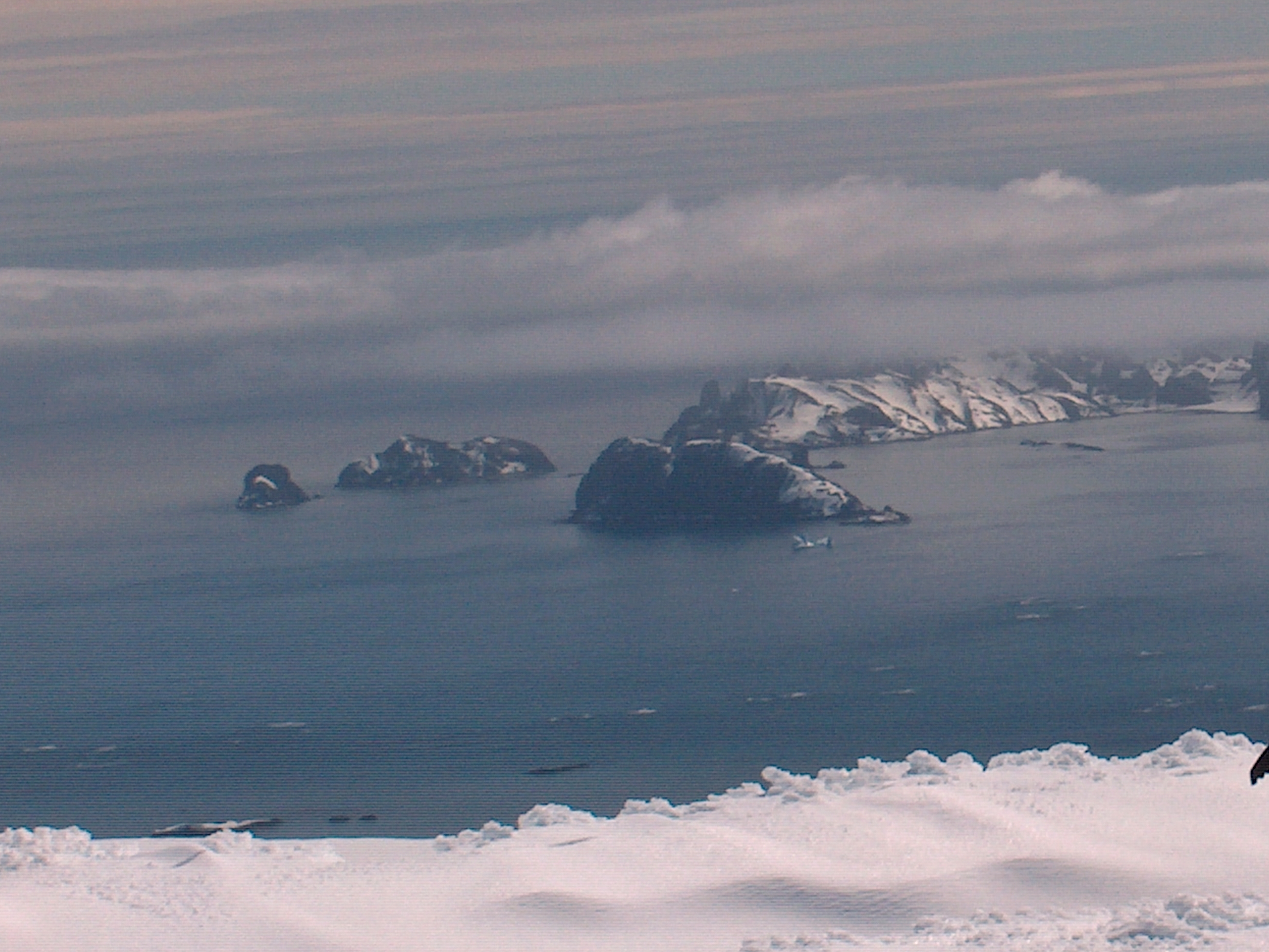 Miladinovi Islets off Desolation Island, Antarctica seen from Vidin Heights, Livingston Island